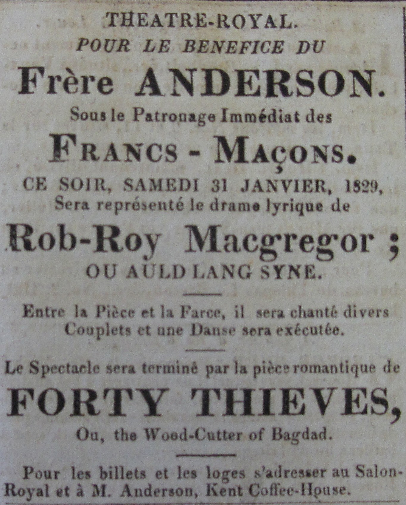 Advertisement for the programme at the Theatre Royal, Jersey:31 Janvier 1829 - Rob Roy Macgregor, or Auld Lang Syne by Isaac Pocock